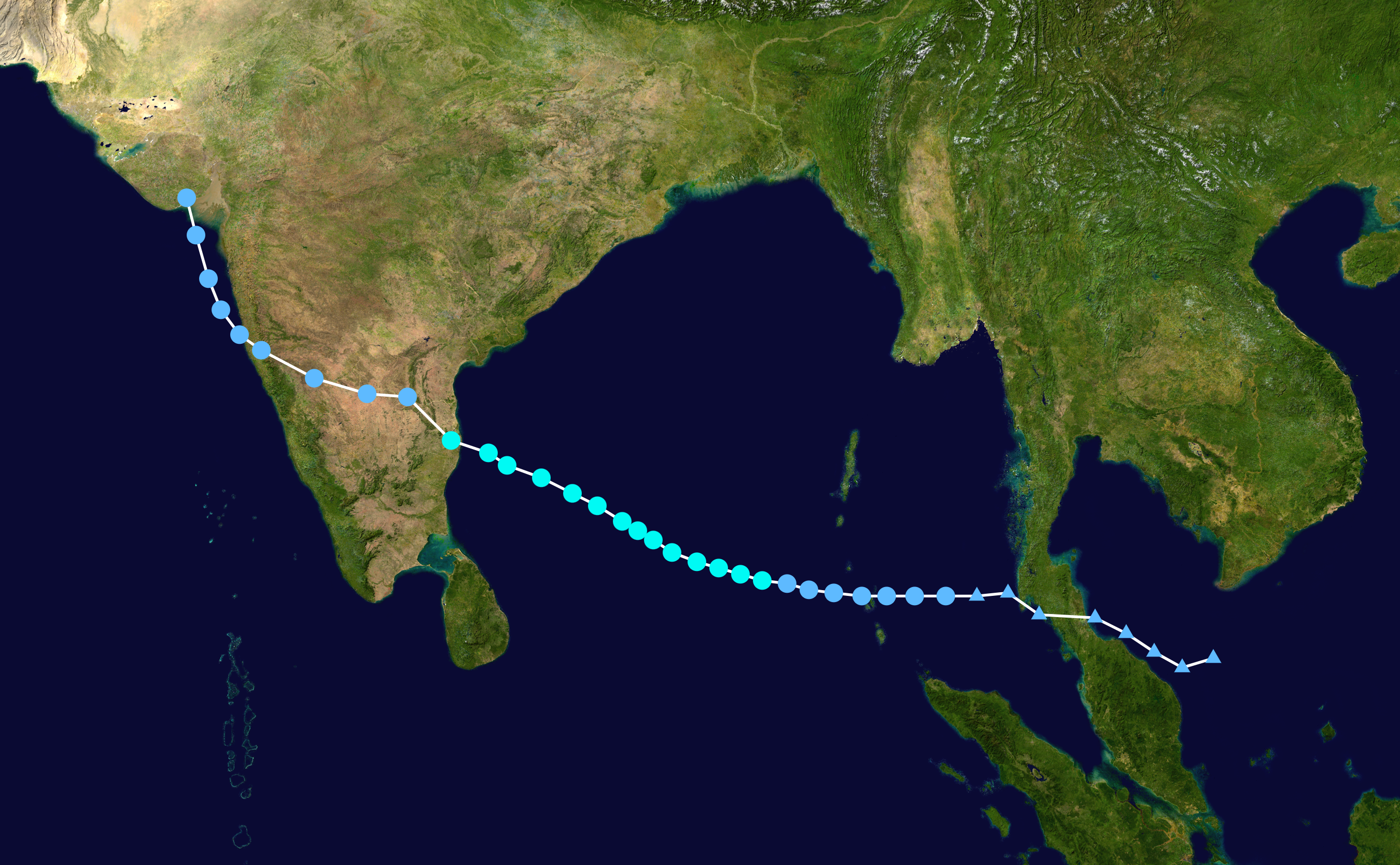 Track map of Severe Cyclonic Storm Jal of the 2010 North Indian Ocean cyclone season. The points show the location of the storm at 6-hour intervals. The colour represents the storm's maximum sustained wind speeds as classified in the Saffir–Simpson scale (see below), and the shape of the data points represent the nature of the storm, according to the legend below. Saffir–Simpson scale Tropical depression≤38 mph≤62 km/h Category 3111–129 mph178–208 km/h Tropical storm39–73 mph63–118 km/h Category 4130–156 mph209–251 km/h Category 174–95 mph119–153 km/h Category 5≥157 mph≥252 km/h Category 296–110 mph154–177 km/h Unknown Storm type Tropical cyclone Subtropical cyclone Extratropical cyclone / Remnant low / Tropical disturbance / Monsoon depression